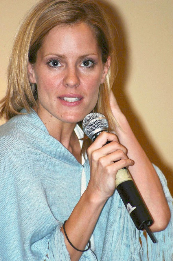 American actress Emma Caulfield at a Buffy the Vampire Slayer convention in Tampa.